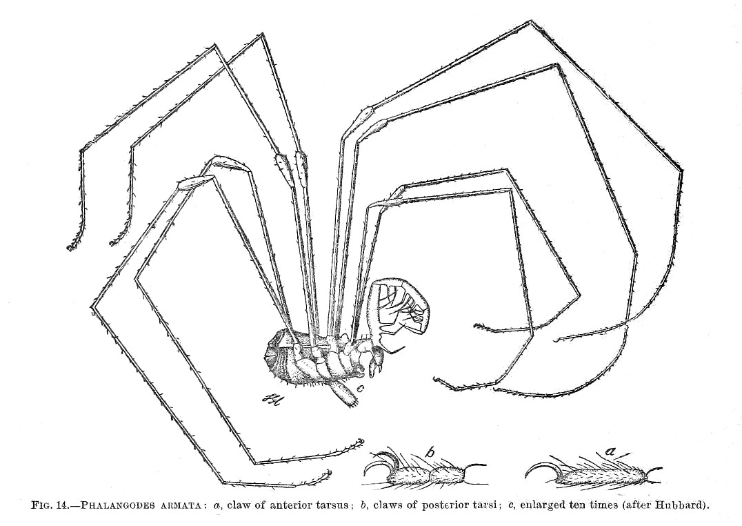 Fig. 14. — Phalangodes armata : a, claw of anterior tarsus ; b, claws of posterior tarsi ; c, enlarged ten times (after Hubbard).